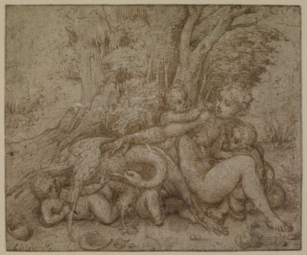 Leda and the Swan, with Castor, Pollux, Helen and Clytemnestra; trees behind Pen and brown ink, on grey-brown prepared paper Drawn by: Giovanni Battista Palumba ( Formerly attributed to: Giovanni Antonio Sodoma); British Museum page